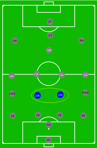 Base image (the pitch) - Image:Boisko.svg by User:MesserWoland Positions added by User:Tiresais